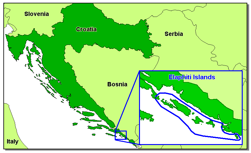 Elaphiti (Elafiti) Islands map